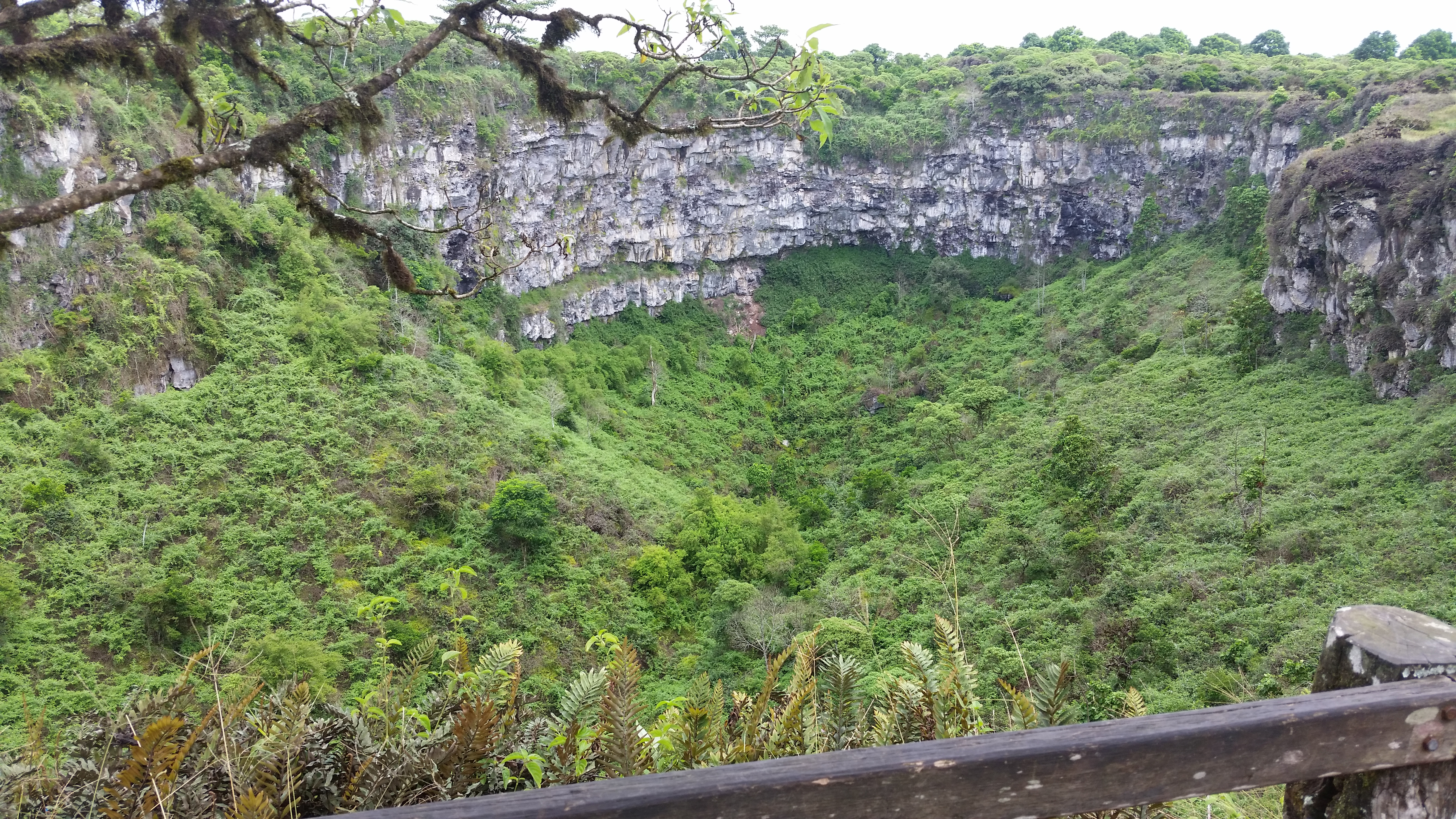 Los Gemelos, Isla Santa Cruz, Galapagos Islands